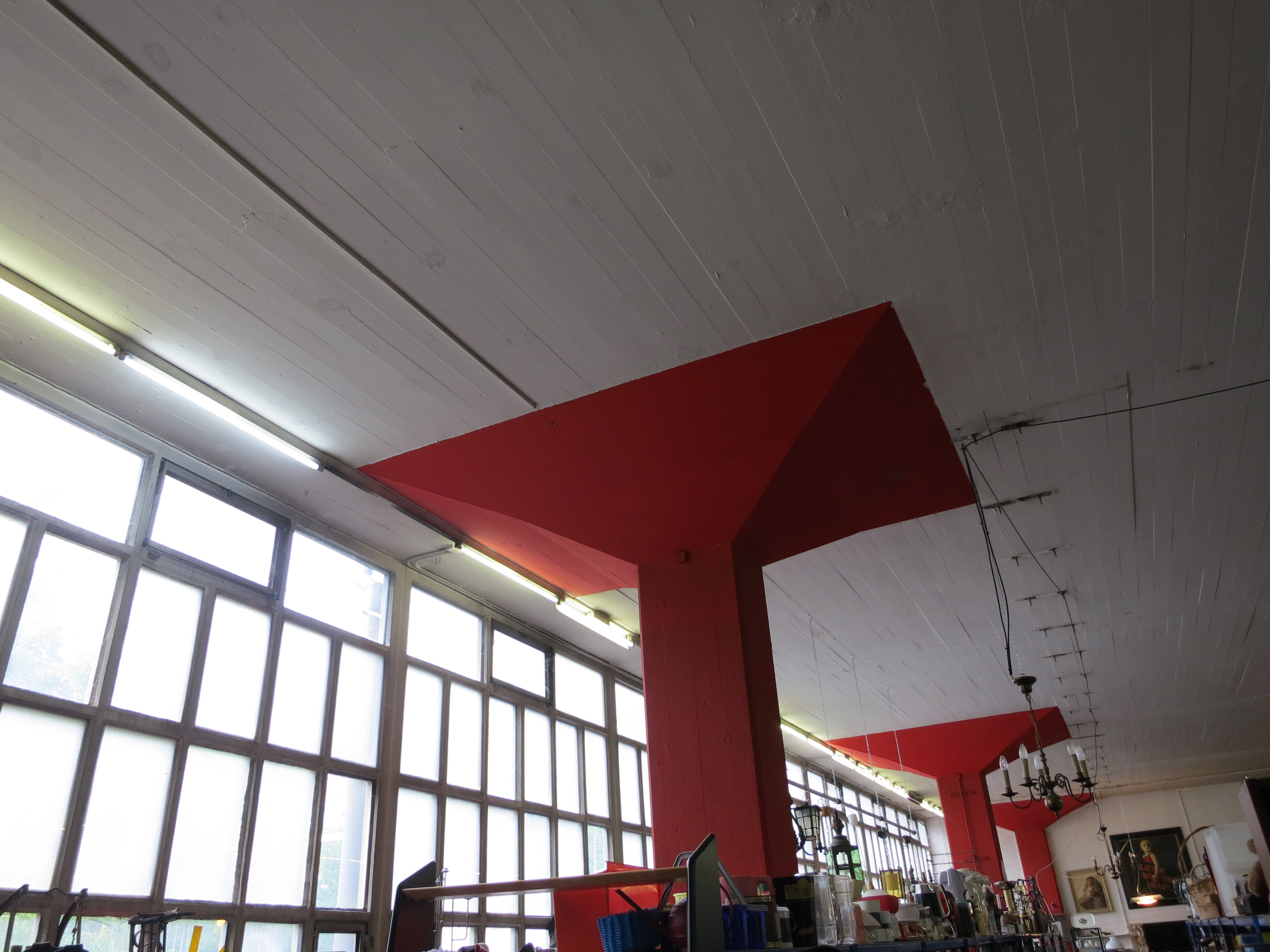 Pilzstützen in der Werkstatthalle, ehemalige Grossgarage Schlotterbeck, Zürich-Aussersihl, Schweiz